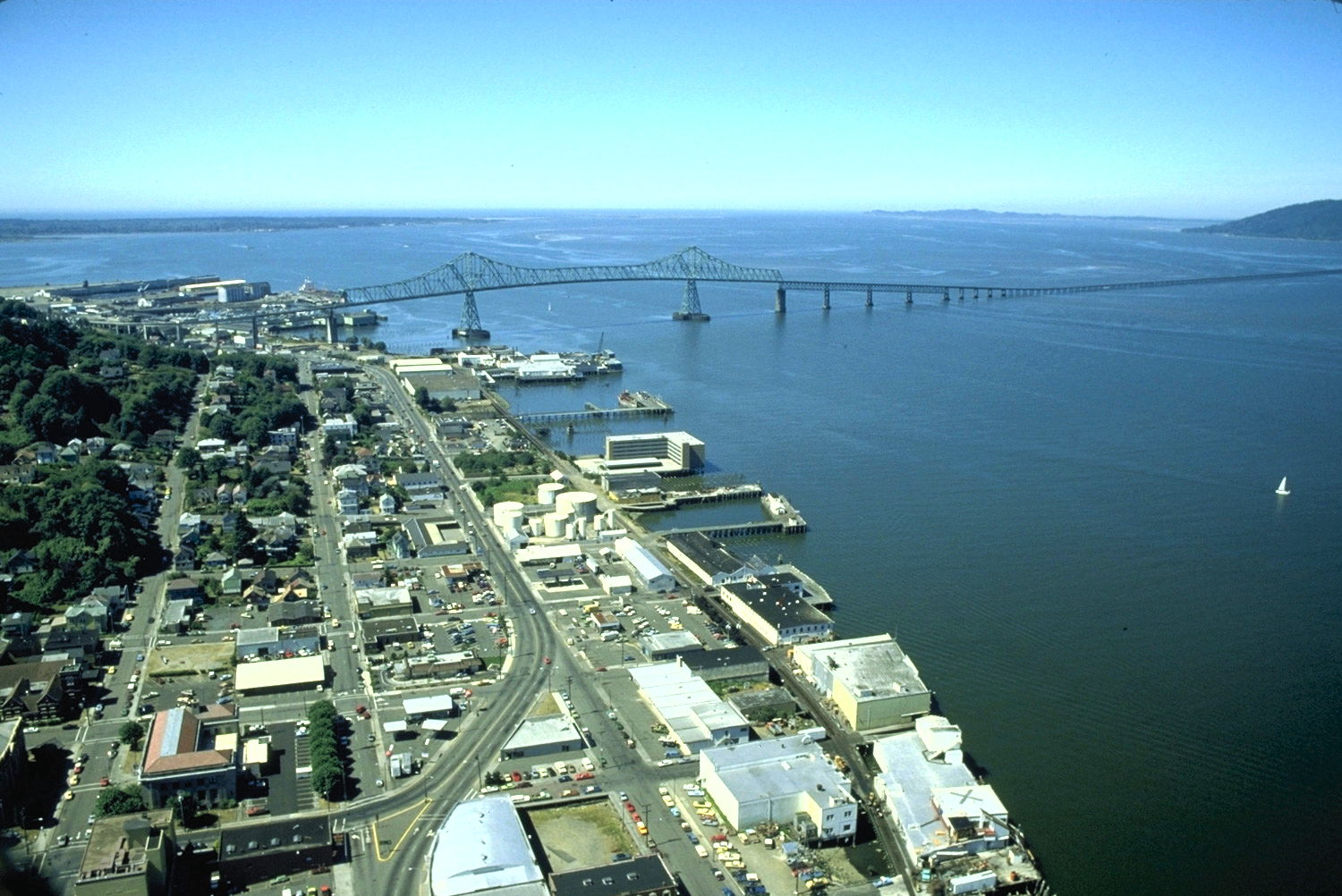 The Astoria-Megler Bridge across the Columbia River at Astoria, Oregon, USA.